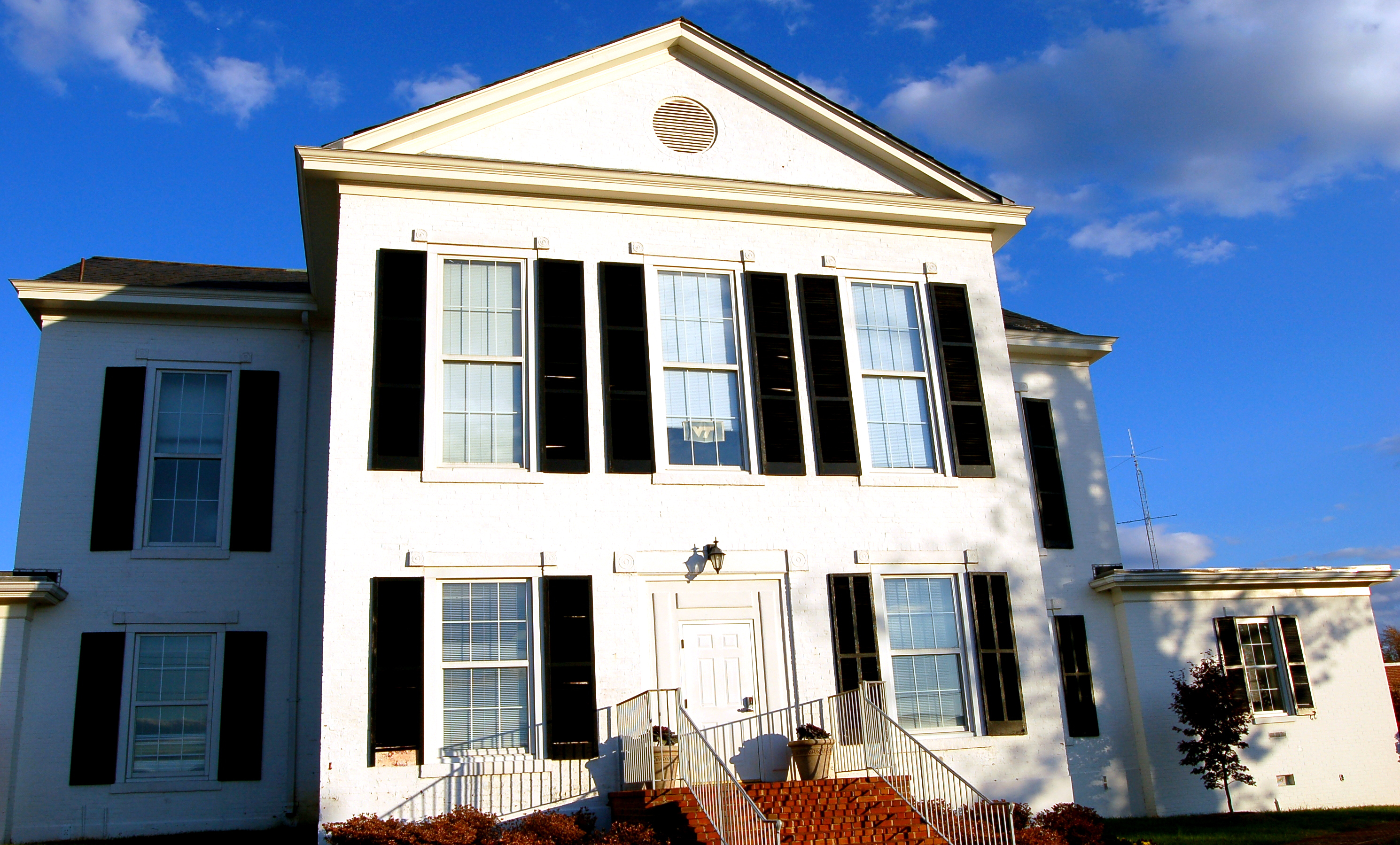 Amherst County Courthouse (built in 1870)